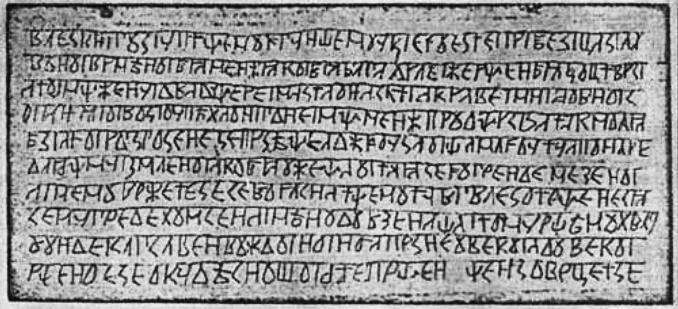 Isenbeck's Plank